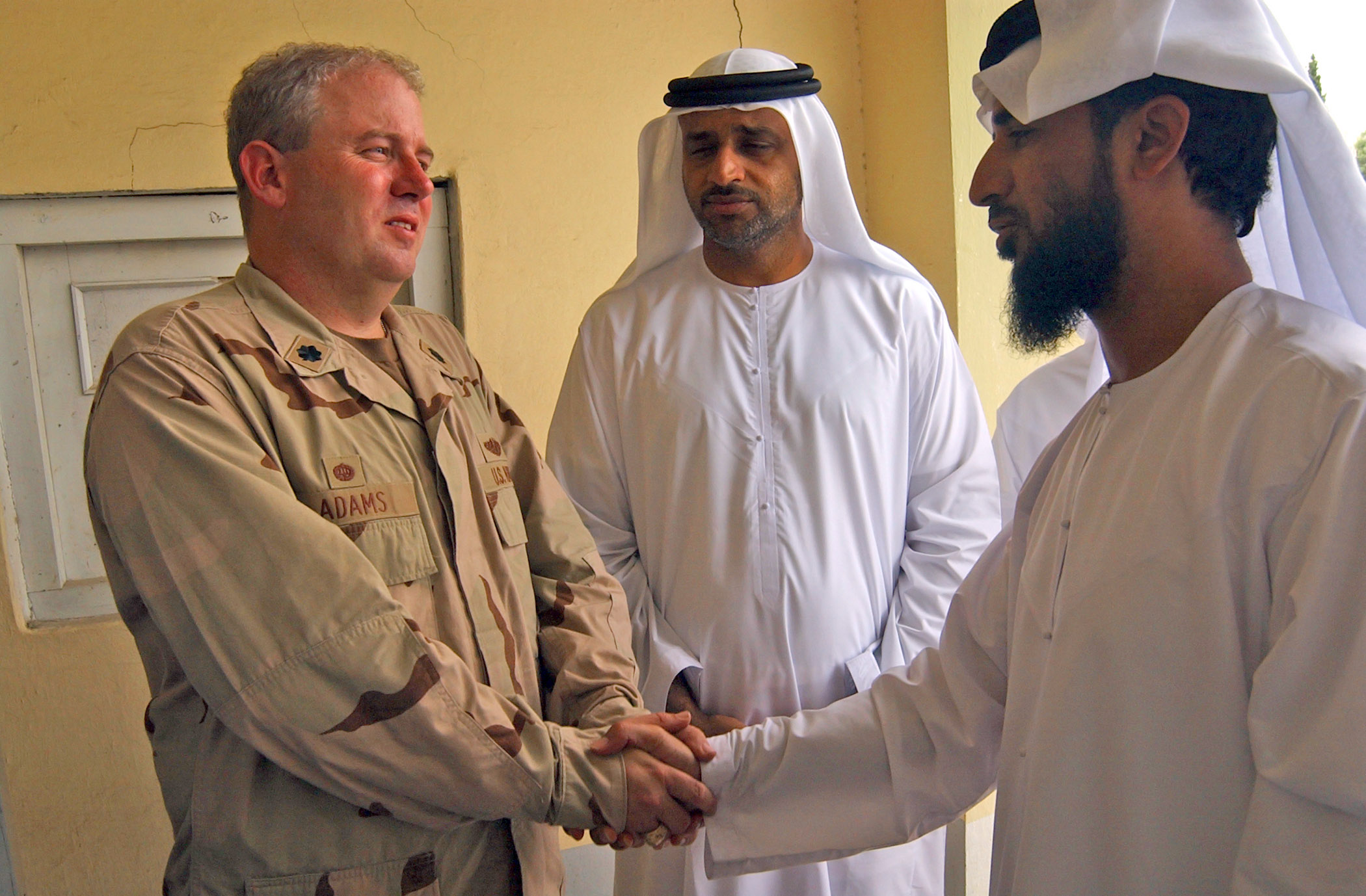 Khowst City, Afghanistan (May 15, 2007) – U.S. Navy Commander Dave Adams, commander of the Khowst Provincial Reconstruction Team, greets delegates from the United Arab Emirates (UAE) at the Khowst governor's compound. The delegates visited the province to show their support for continued UAE investments in Khowst City. U.S. Army photo by Private First Class Micah E. Clare (RELEASED)